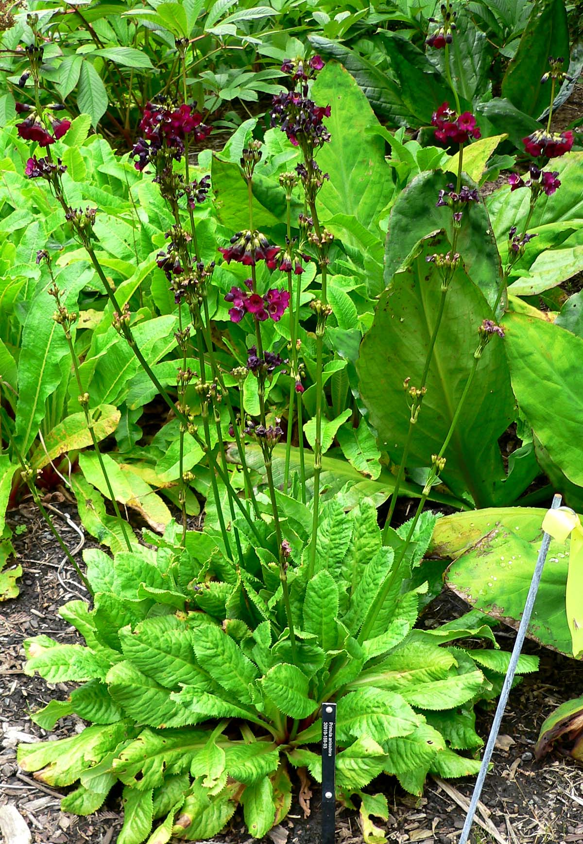 Photo of Primula anisodora at the UBC Botanical Garden in Vancouver